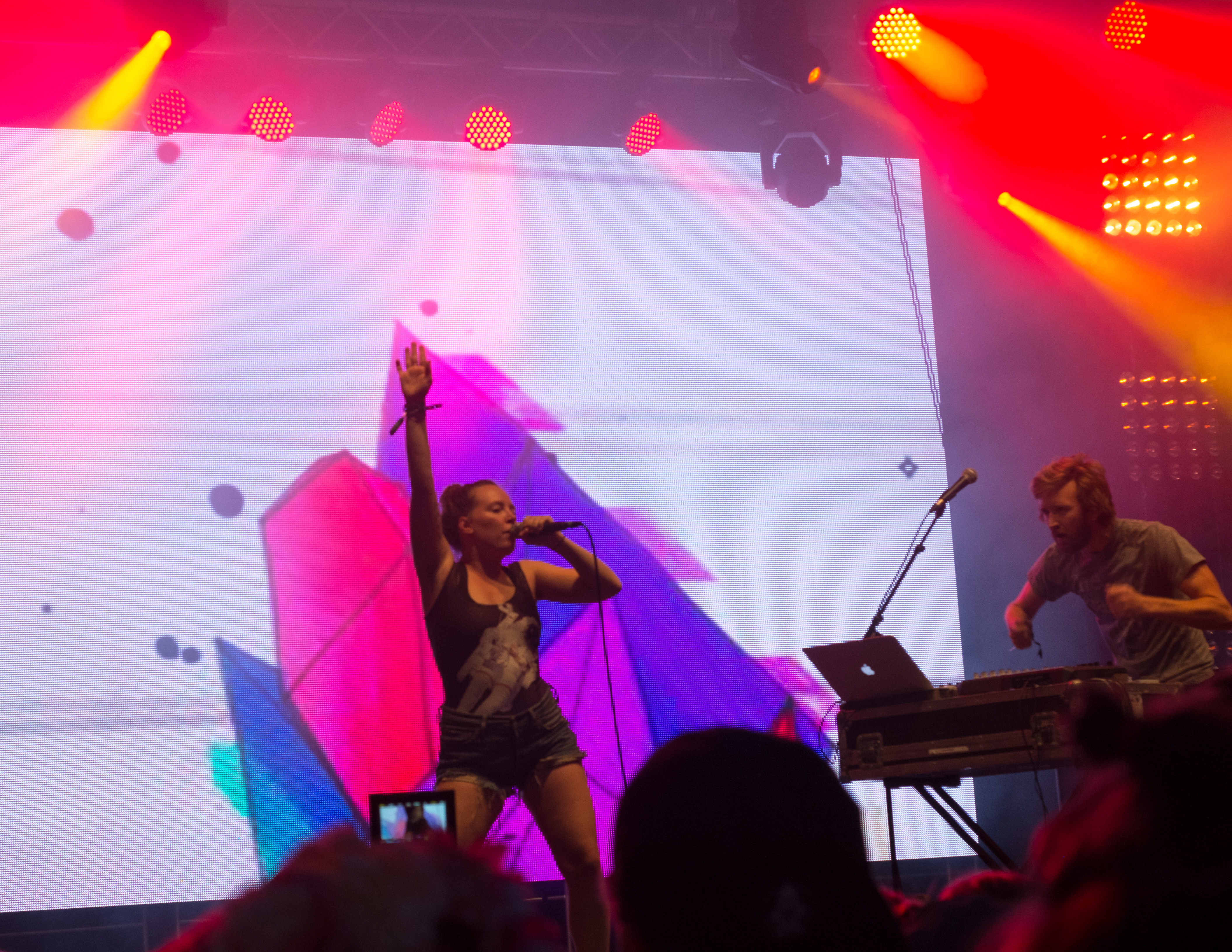 American indie pop duo Sylvan Esso at MS Dockville in Hamburg, Germany.